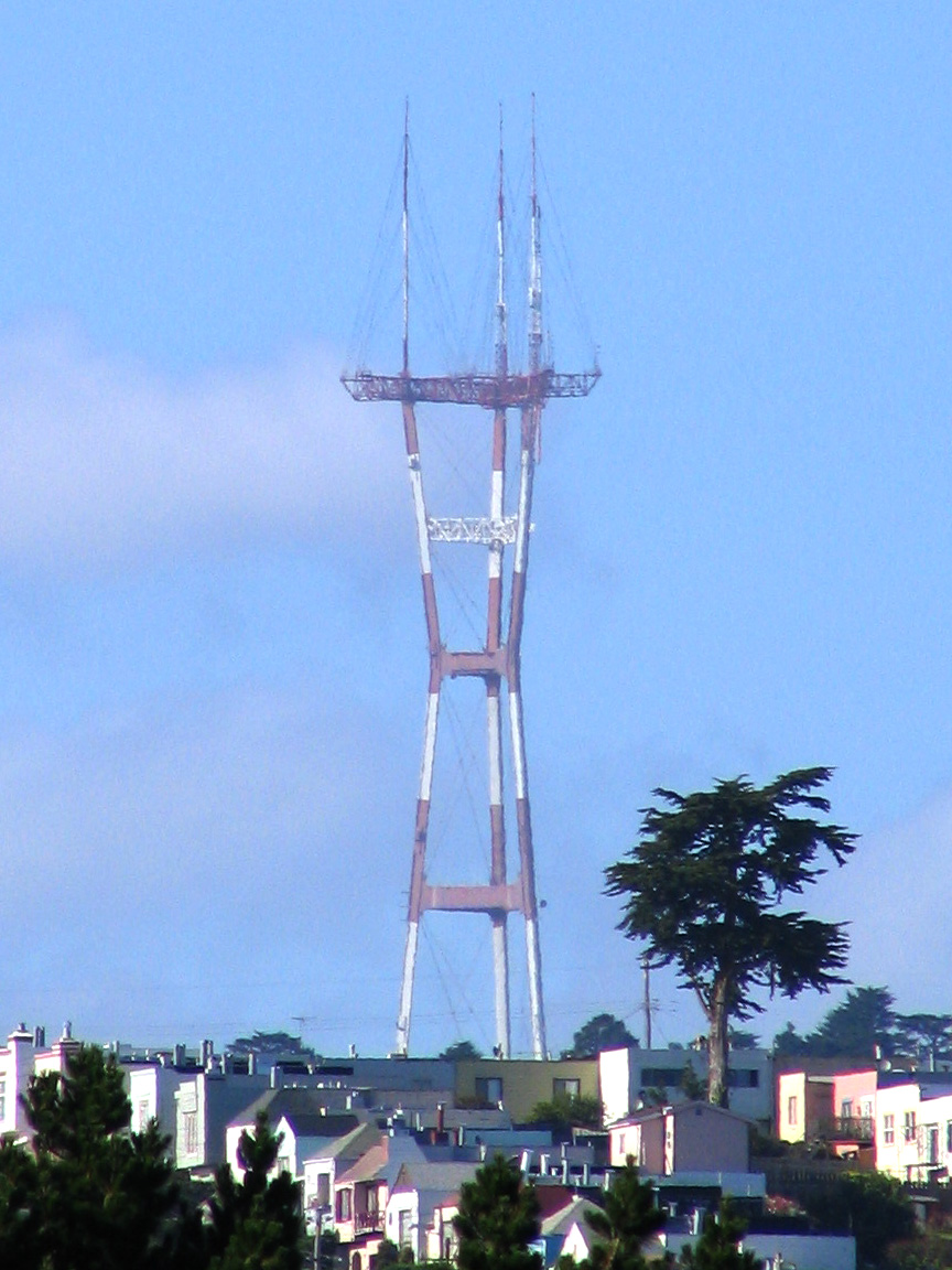 San Francisco's Sutro Tower, taken from the Daly City BART station.